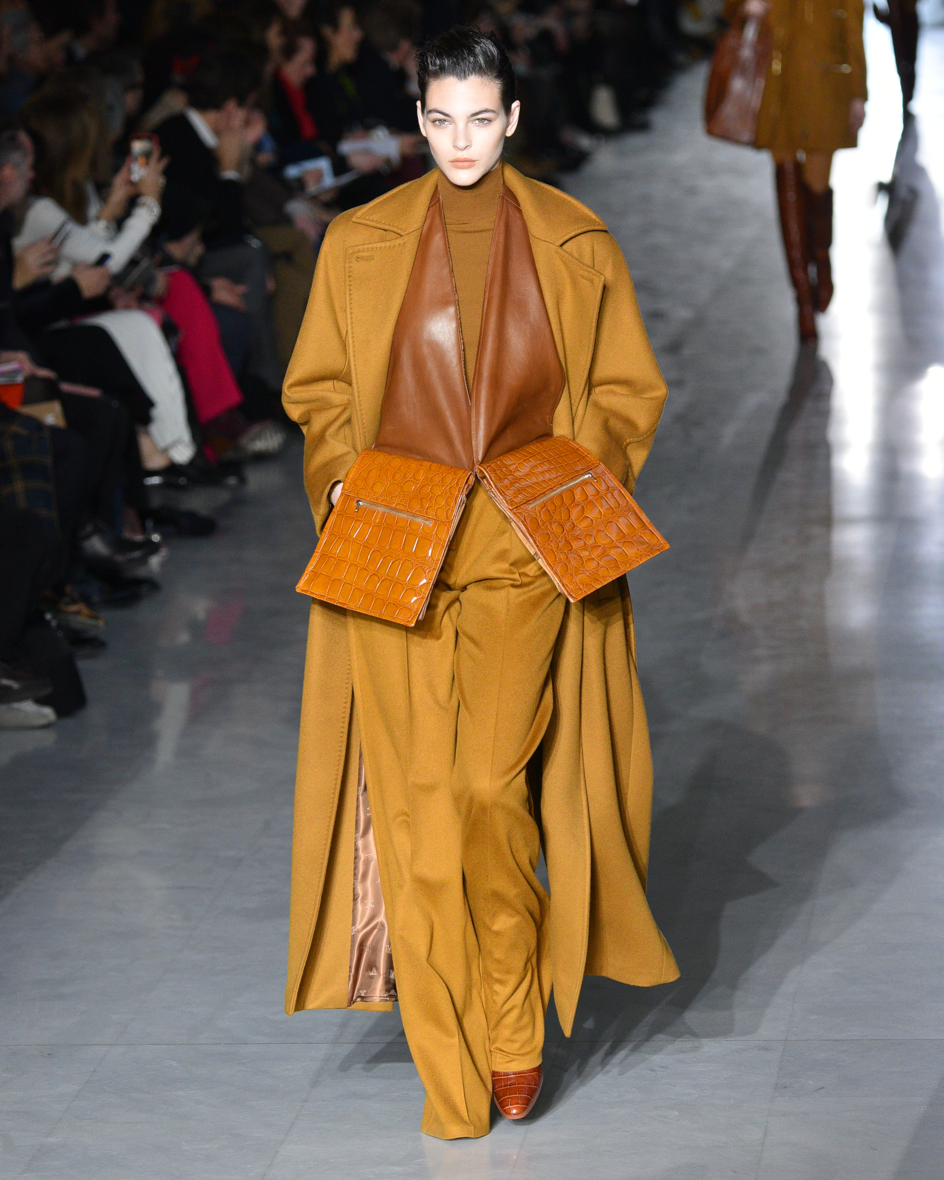 Max Mara FW19 at Bocconi University Milan